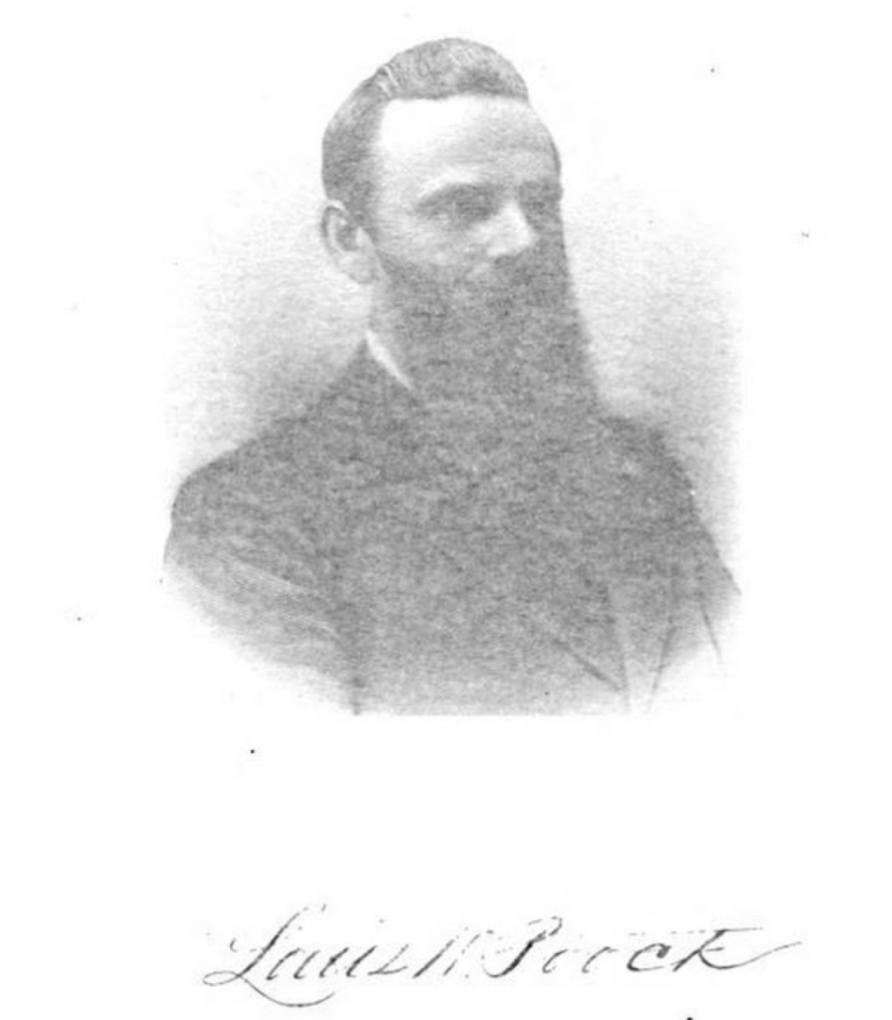 The only surviving picture of Louis H Poock (1839 – 1897) from the Dayton historical records